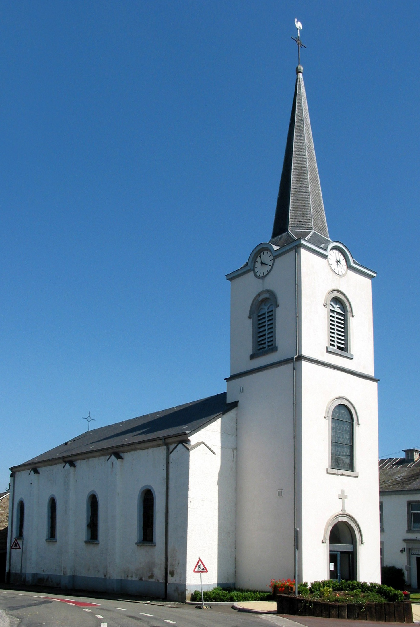 Lavacherie (Sainte-Ode, Belgium), St. Aubin and St. Antoine church.